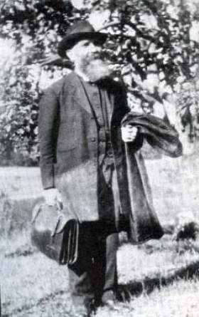 Swedish missionary pioneer Nils Fredrik Höijer.